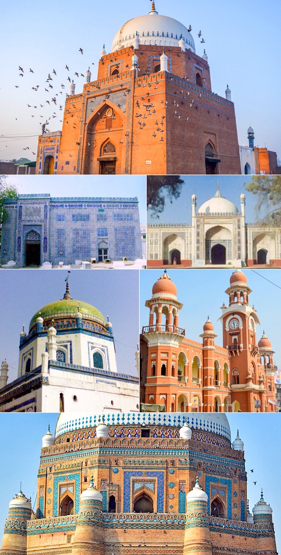 A collage of notable sites in Multan, Pakistan